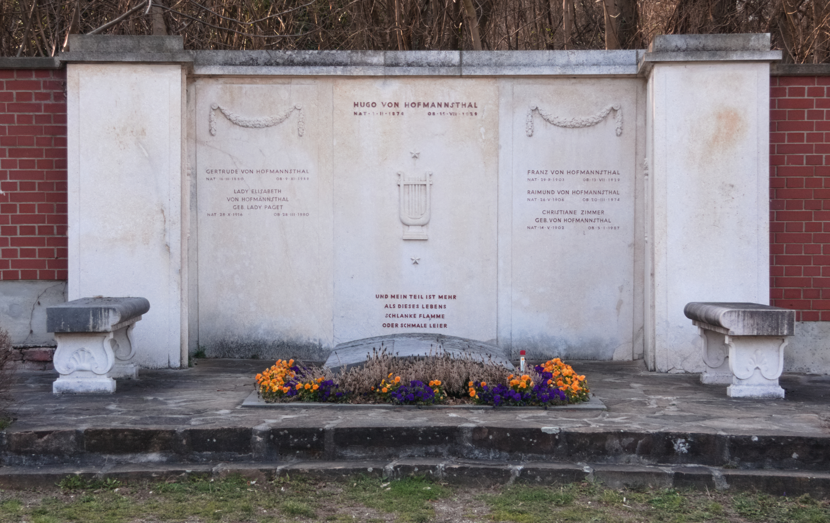 The grave of Hugo von Hofmannsthal on the cemetery Kalksburg in Vienna, Austria